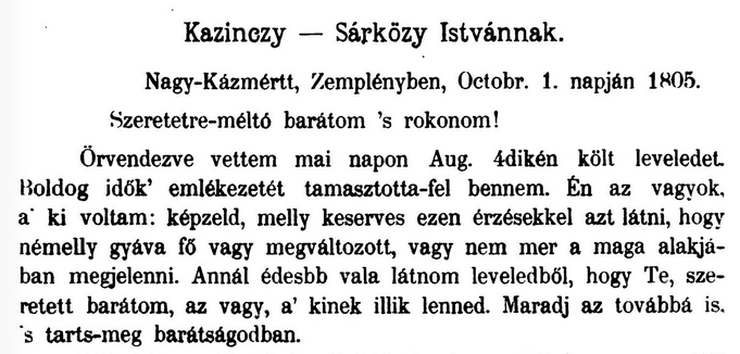 Letter of Kazinczy to Sárközy